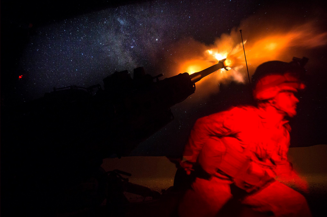 The United States Marine Corps provide fire support to the SDF during the Battle of Raqqa.